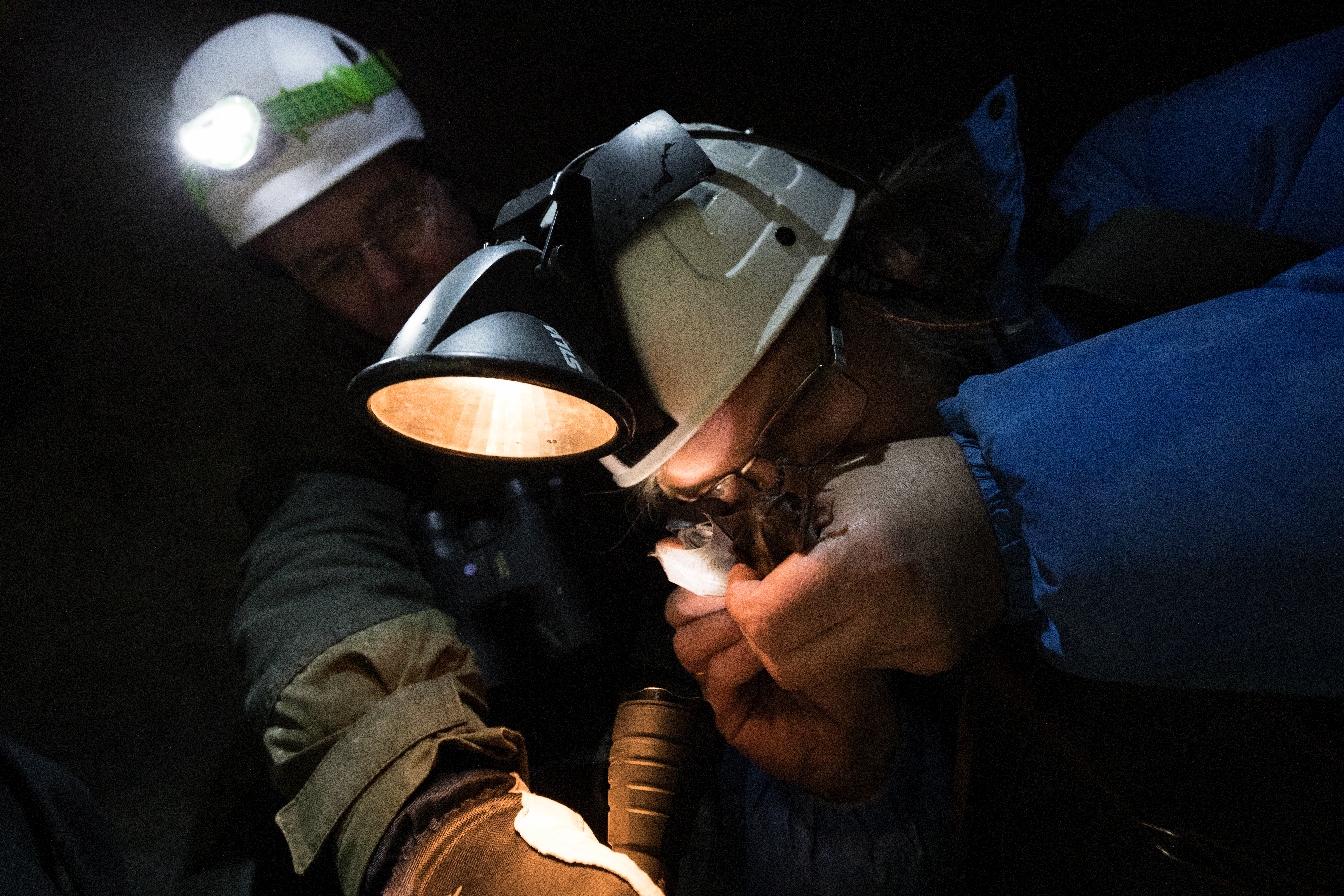 The Bat Scientists Lauri Lutsar is checking the age of the bat he is holding. Lauri Klein is helping to lighten the bat. The study is a part of national monitoring program.